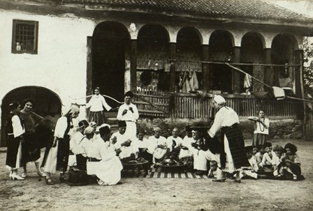 Bulgaria